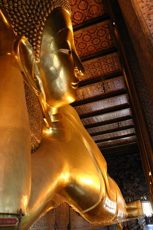 The large Reclining Buddha at Wat Pho, Bangkok, Thailand